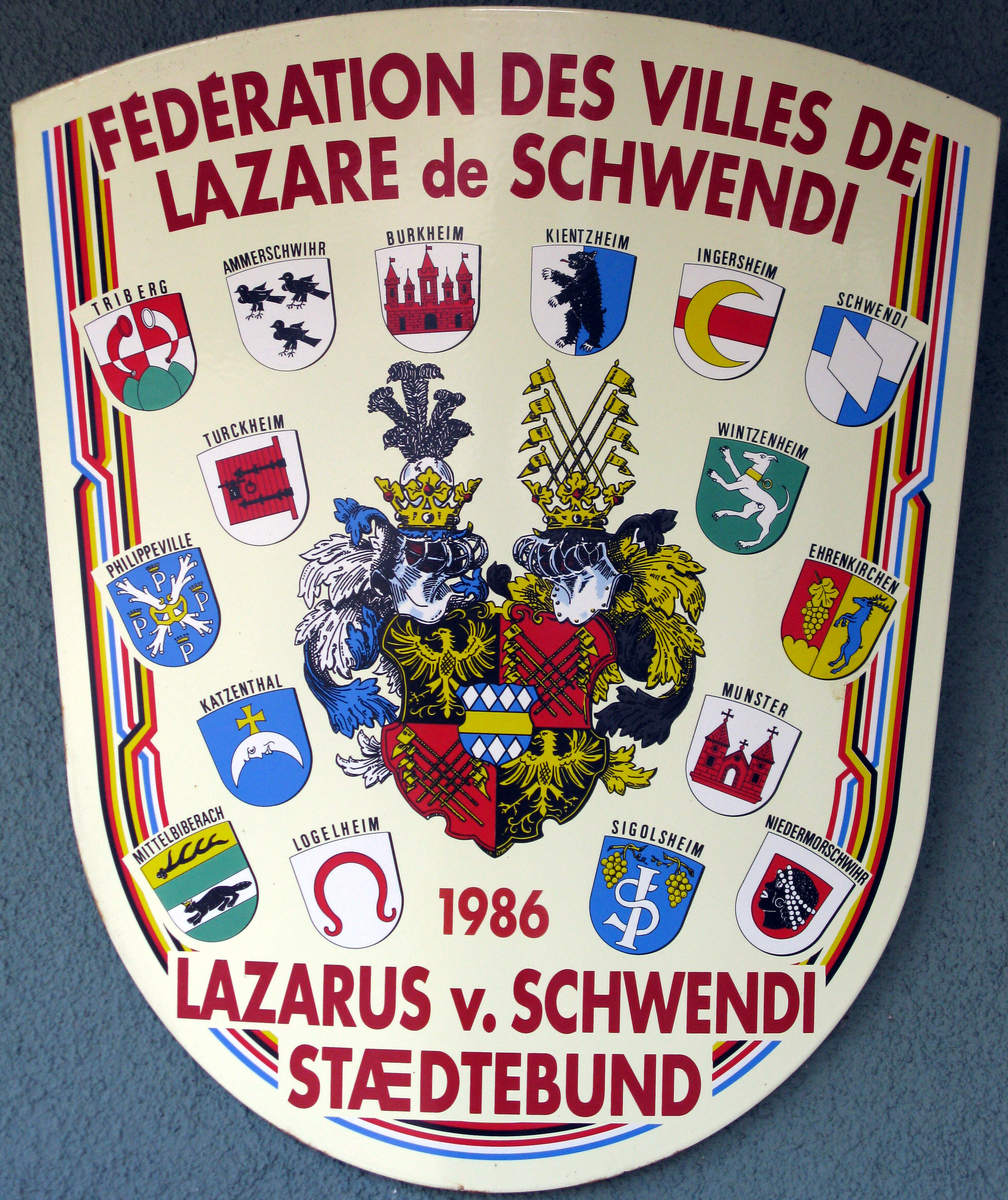 Emblem of the confederation of cities relating to Lazarus von Schwendi at the town hall of Ehrenkirchen